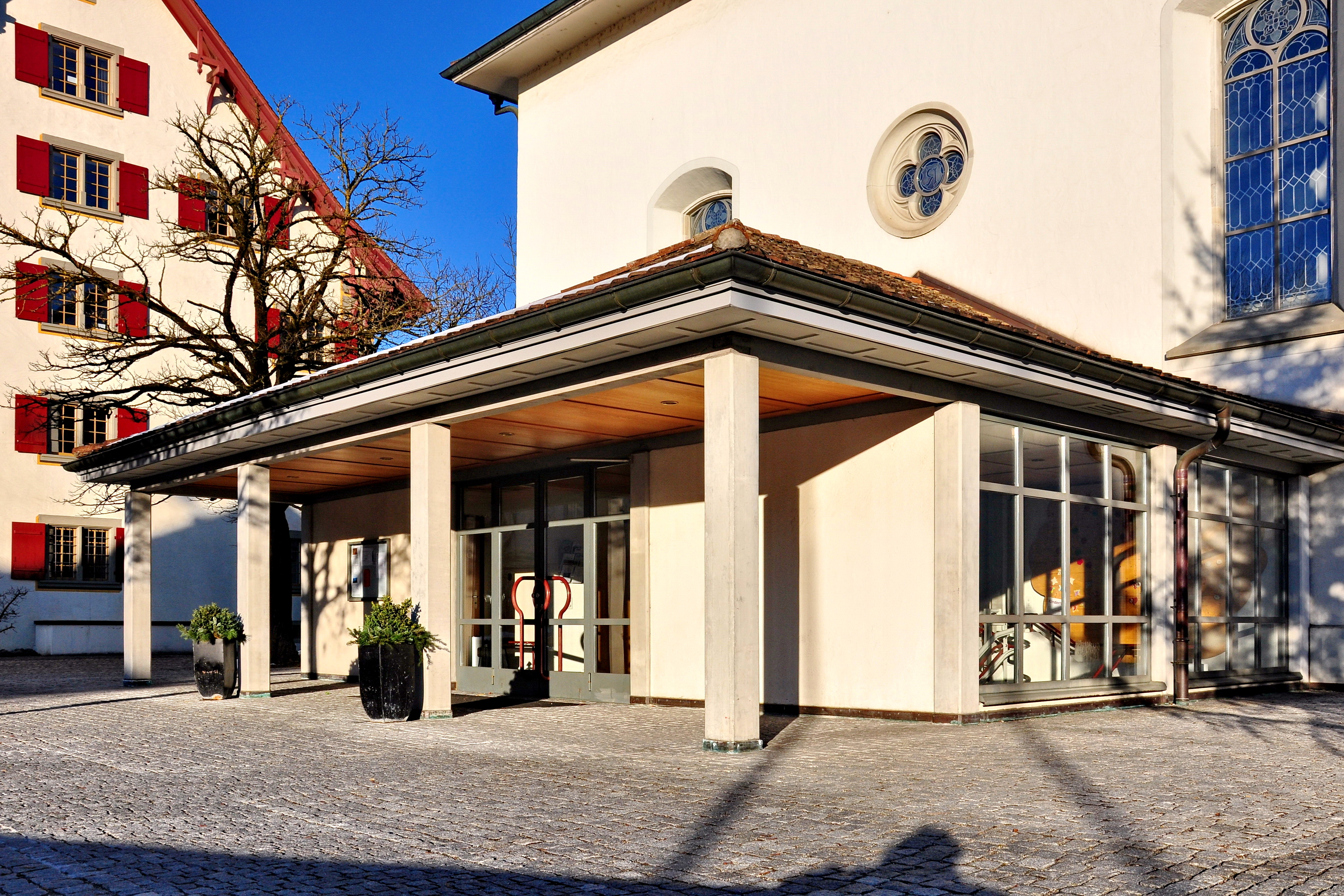 Former Premonstratensian Abbey St. Mary in Rüti (Switzerland), as of today Reformed church and its entrance hall where the Toggenburg burial vault was situated. To the left, there's the so-called Amthaus (Bailiff's house) situated, as of today site of the public library and some city government services.